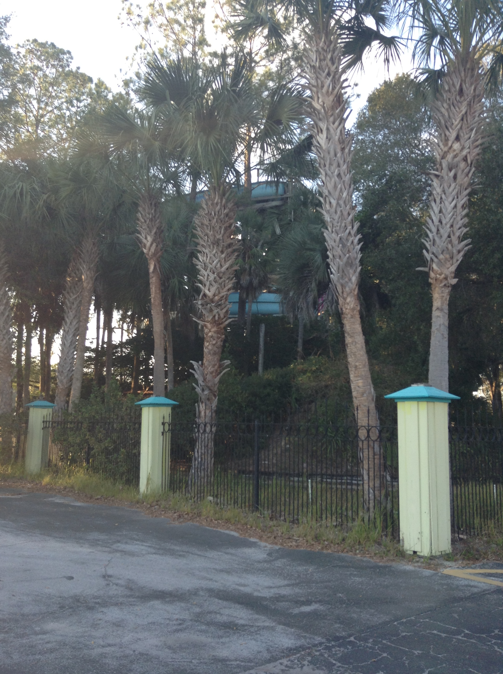 A partial view of "The Hurricane" ride from the entrance of Wild Waters.